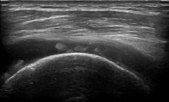 rotator cuff tear in ultrasound